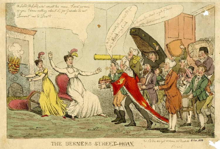 The Berners Street Hoax, caricature by William Heath